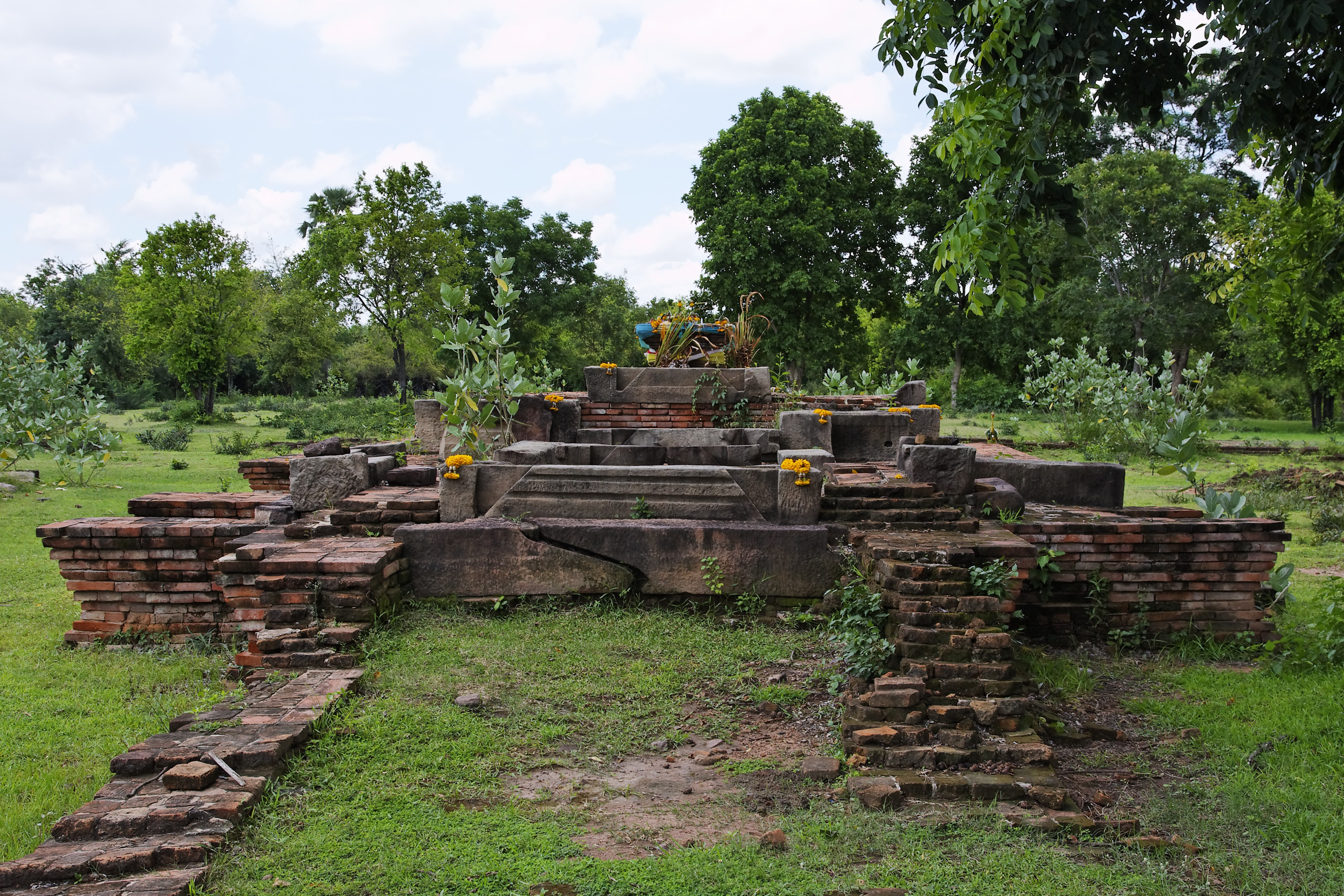 Muang Sema, Thailand